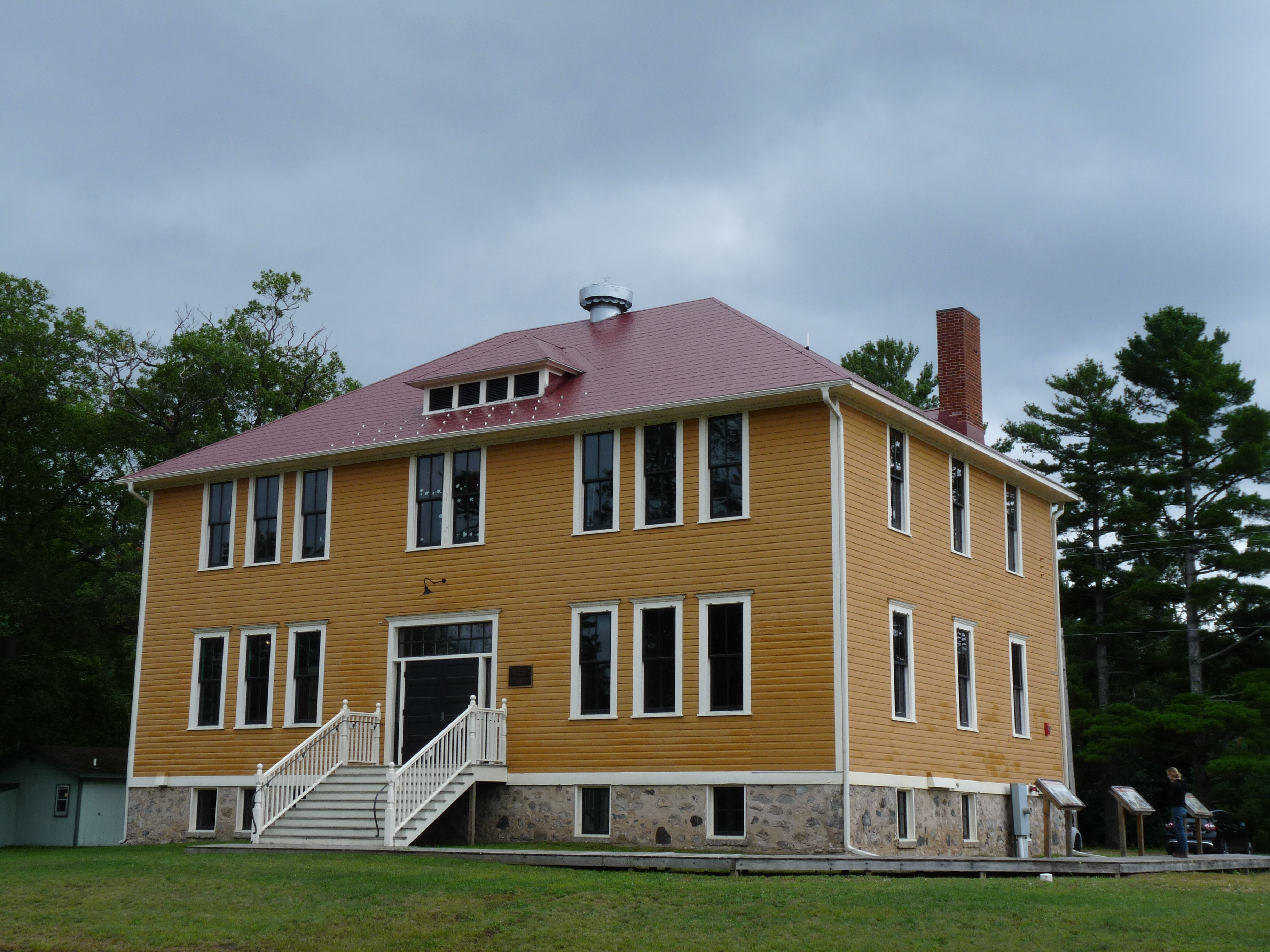 The boys' dormitory at Lac du Flambeau in northern Wisconsin, built in 1895, is a remnant and reminder of the Government Boarding School there, which took young native Americans from their families and prevented them from speaking their parents' language.